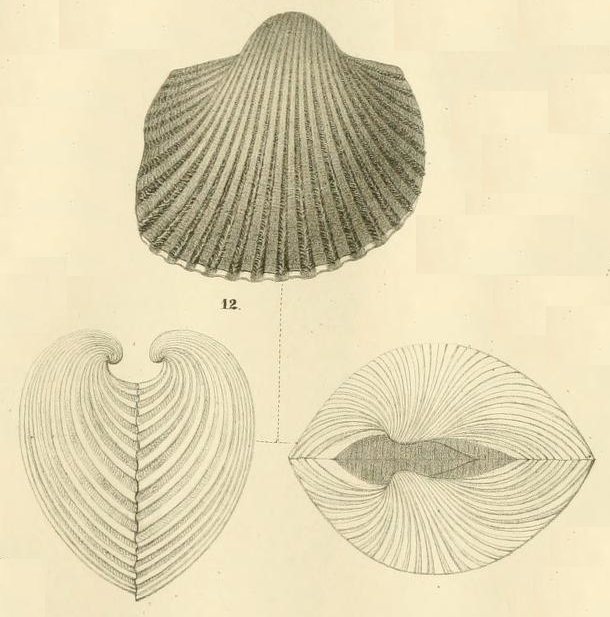 Anadara natalensis (Krauss, 1848); Arcidae, Bivalvia, Mollusca